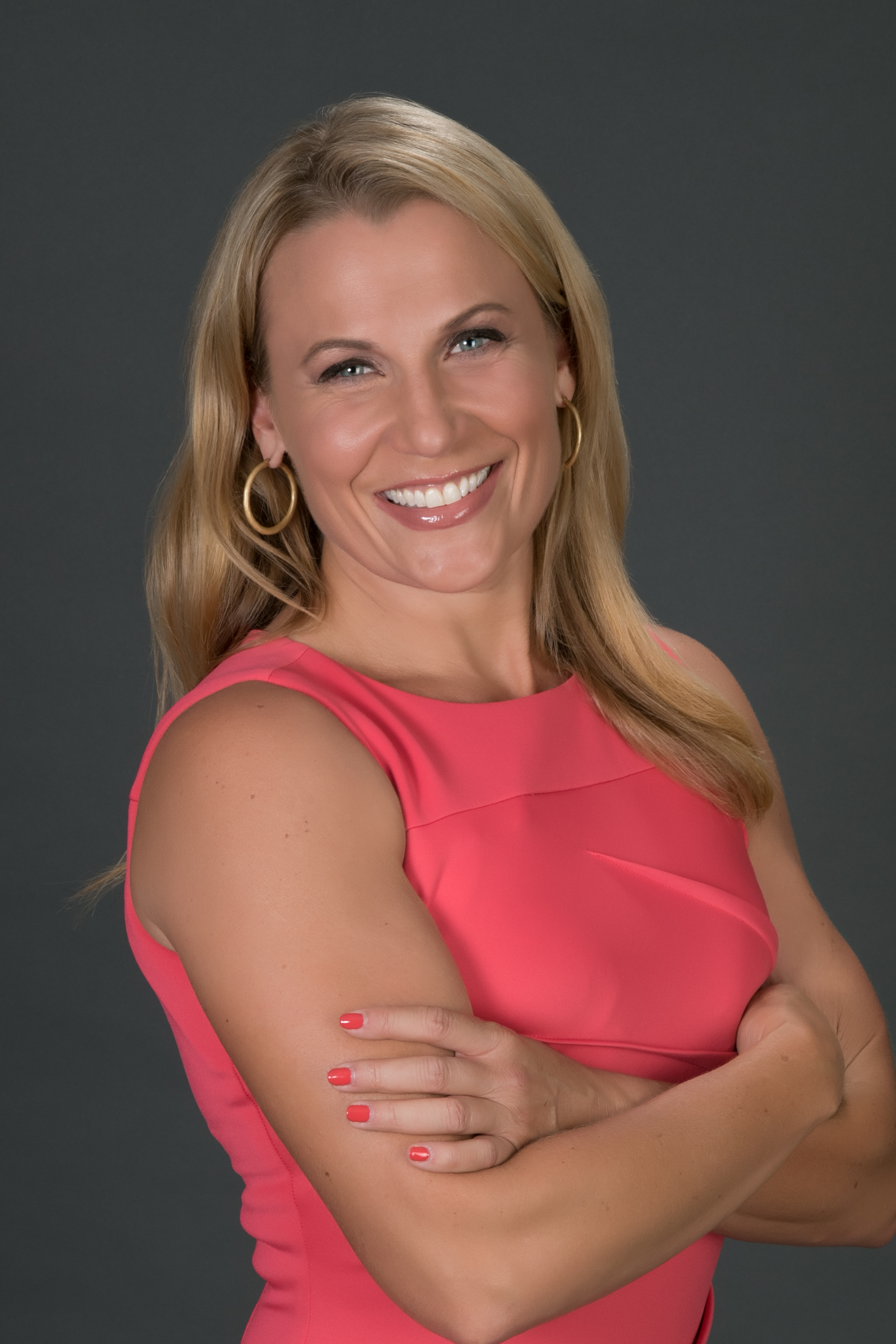 Lisa Byington headshot